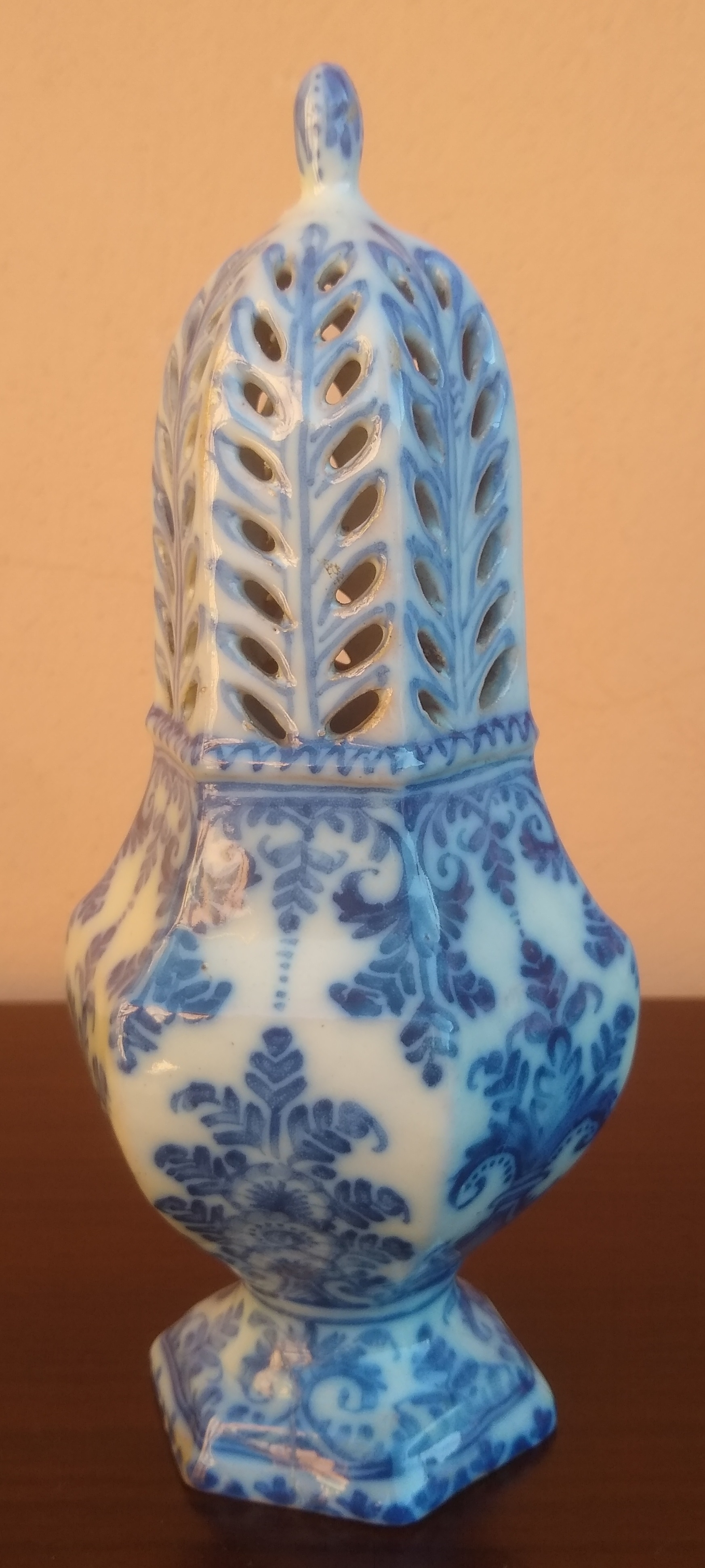 Maiolica sugar castor, height= cm 19.5, maximum width= cm 9.5, probably produced in Lodi, Italy, Giorgio Giacinto Rossetti factory, 1729-36, gran fuoco firing (underglaze decoration), no factory mark. Hexagonal symmetry, decorated in blue with stylised leaf, floral and geometric patters in the Rouen style. Under the base, there is a sketch of a feminine character, in the manner of Rossetti. Under the base there is also a hole for filling it with sugar. The above information and the attribution to the Rossetti factory are taken from Felice Ferrari, La ceramica di Lodi, Azzano San Paolo, Bolis Edizioni, 2003, page 189, where a picture of this sugar castor is published. A picture of the same sugar castor is also published in Catalogo Mostra Maioliche Lodigiane del Settecento nelle collezioni private, organised by FAI Lodi, Electa, 1995, number 48. Private collection